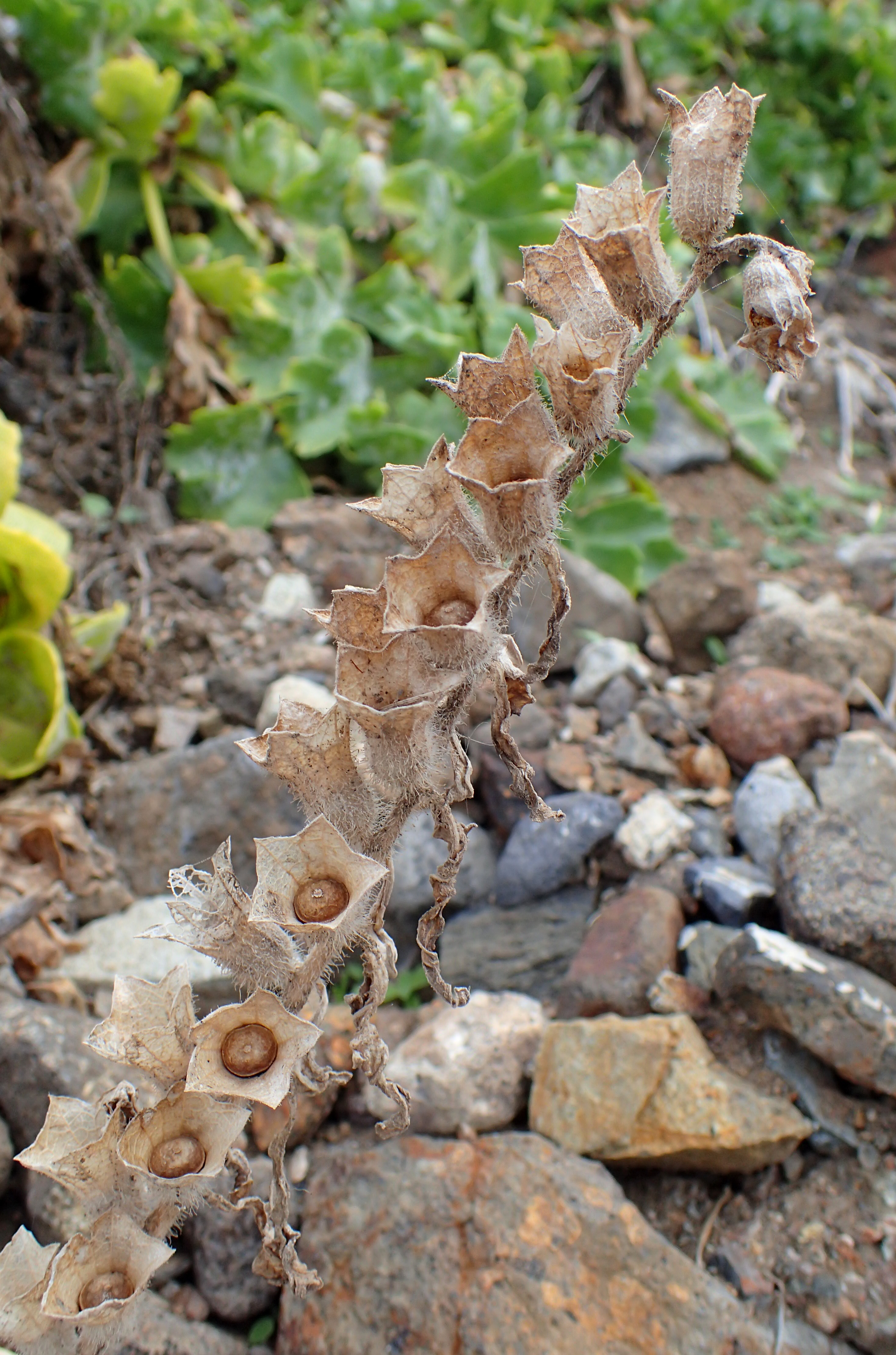 Hyoscyamus niger in Benijo, Tenerife, Canary Islands